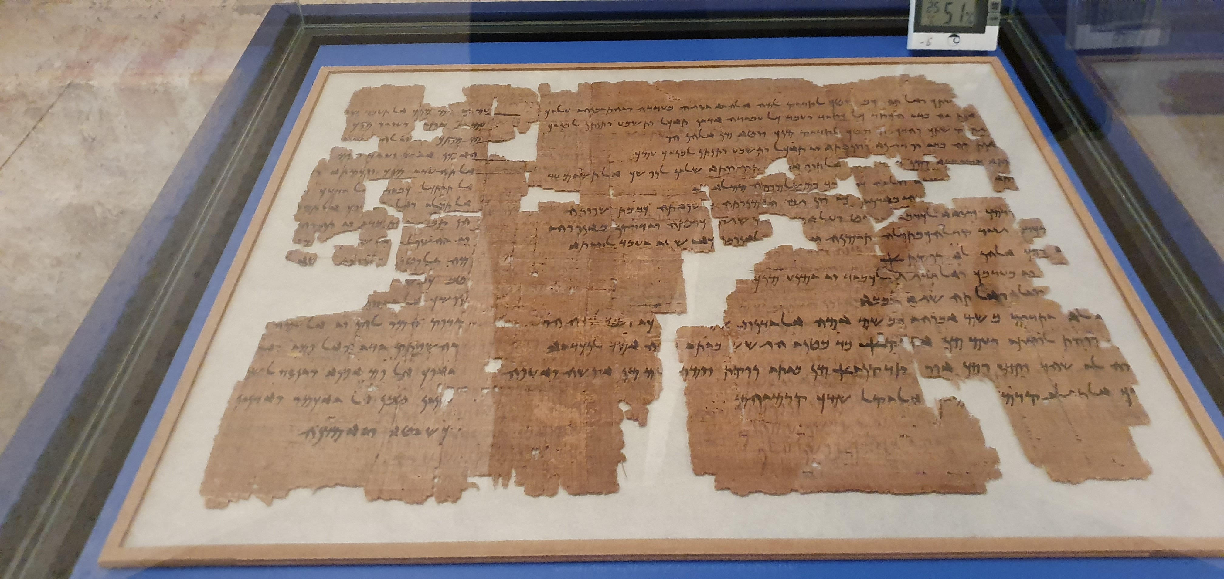 Aramaic Papyrus with Story of Ahiqar, with black ink, 5th century BC